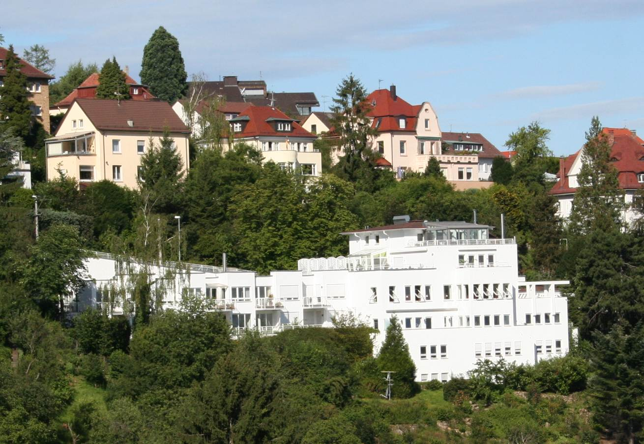 Restaurant Wielandshöhe, Stuttgart-South, Germany